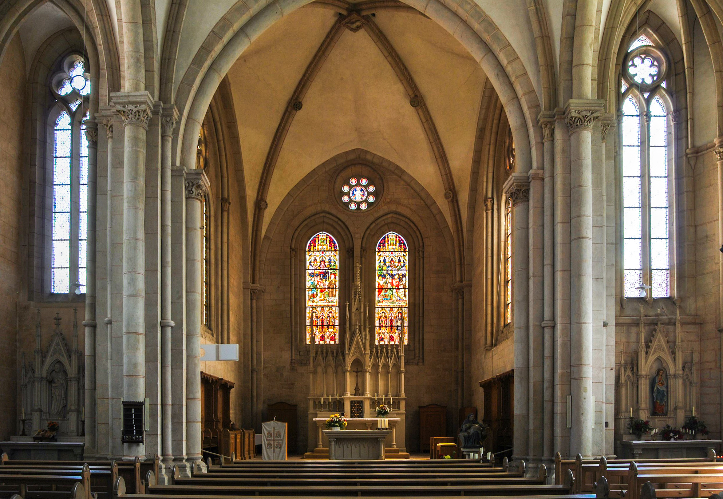 Marsberg (North Rhine-Westphalia, Germany) – district Obermarsberg – Catholic Saint Nicholas Church – interior This image shows a heritage building in Germany, located in the North Rhine-Westphalian city Marsberg (no. 36). This photograph was taken with a Nikon D3000